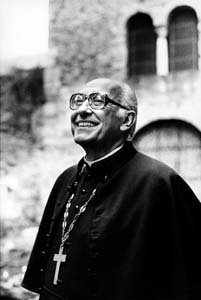 Henri Salina